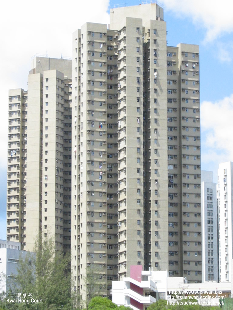 Kwai Hong Court, Kwai Chung, New Territories, Hong Kong